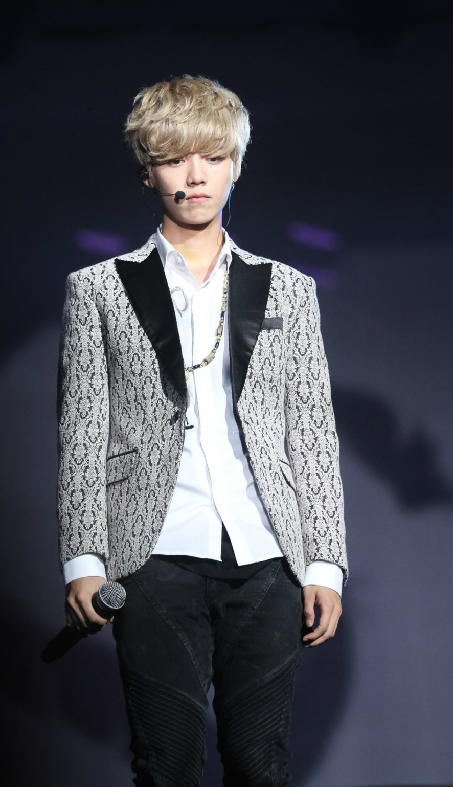 Luhan at the EXO The Lost Planet in Singapore on August 23, 2014.